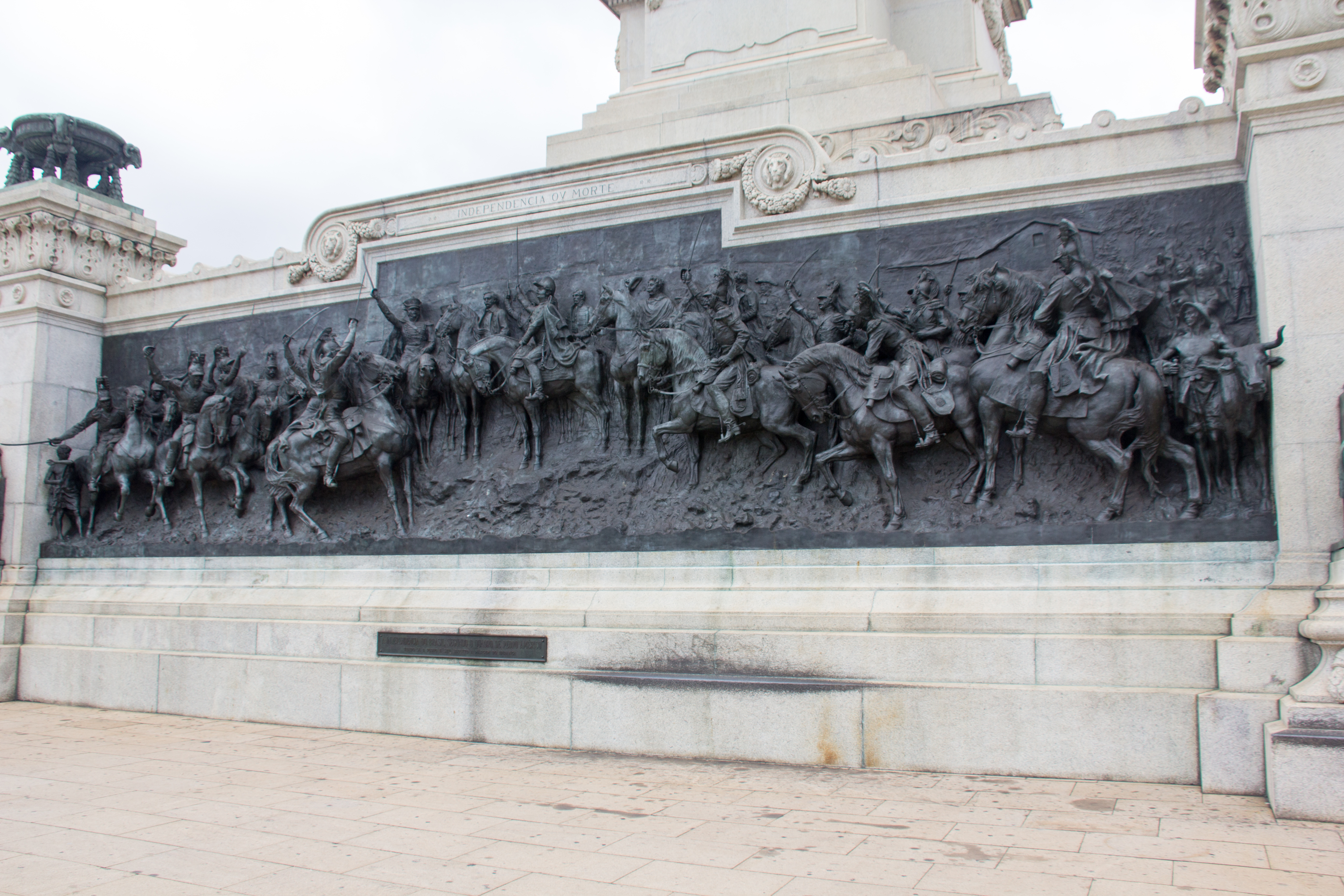 Looking around Paulista Museum, São Paulo, Brazil